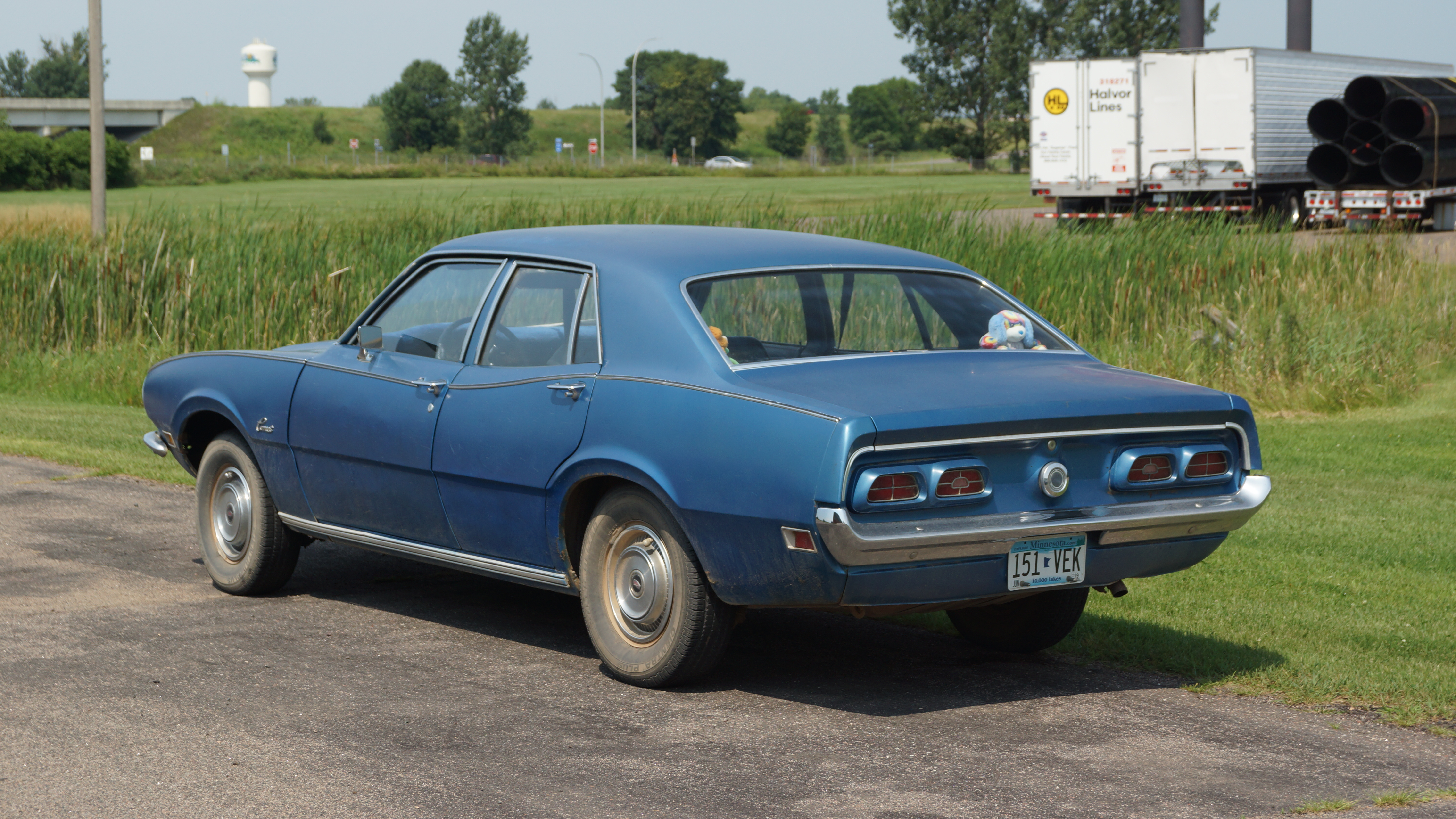 1971 Mercury Comet four-door sedan, rear view